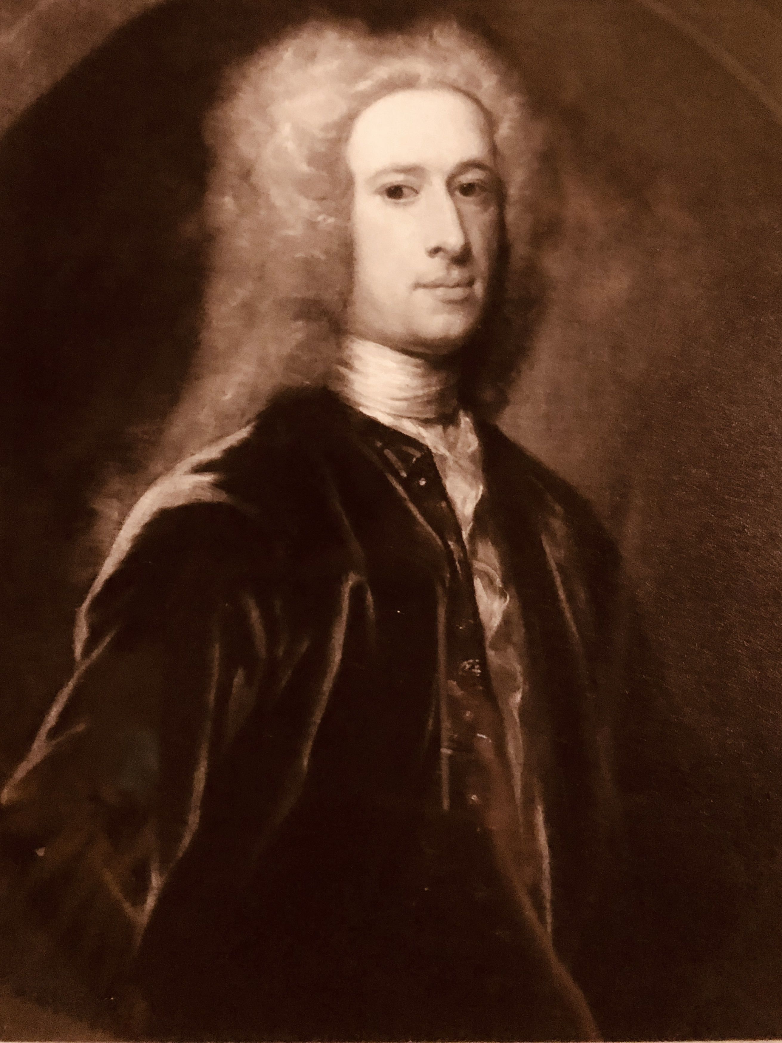 A reproduction of a portrait of Sir Thomas Saunders possibly by Sir Godfrey Kneller & studio.